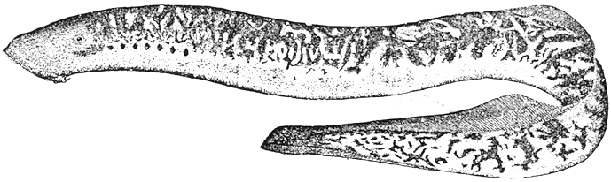 Sea lamprey illustration. The original caption read: Fig. 586.--Petromyzon marinus, sea lamprey. (After Goode.)